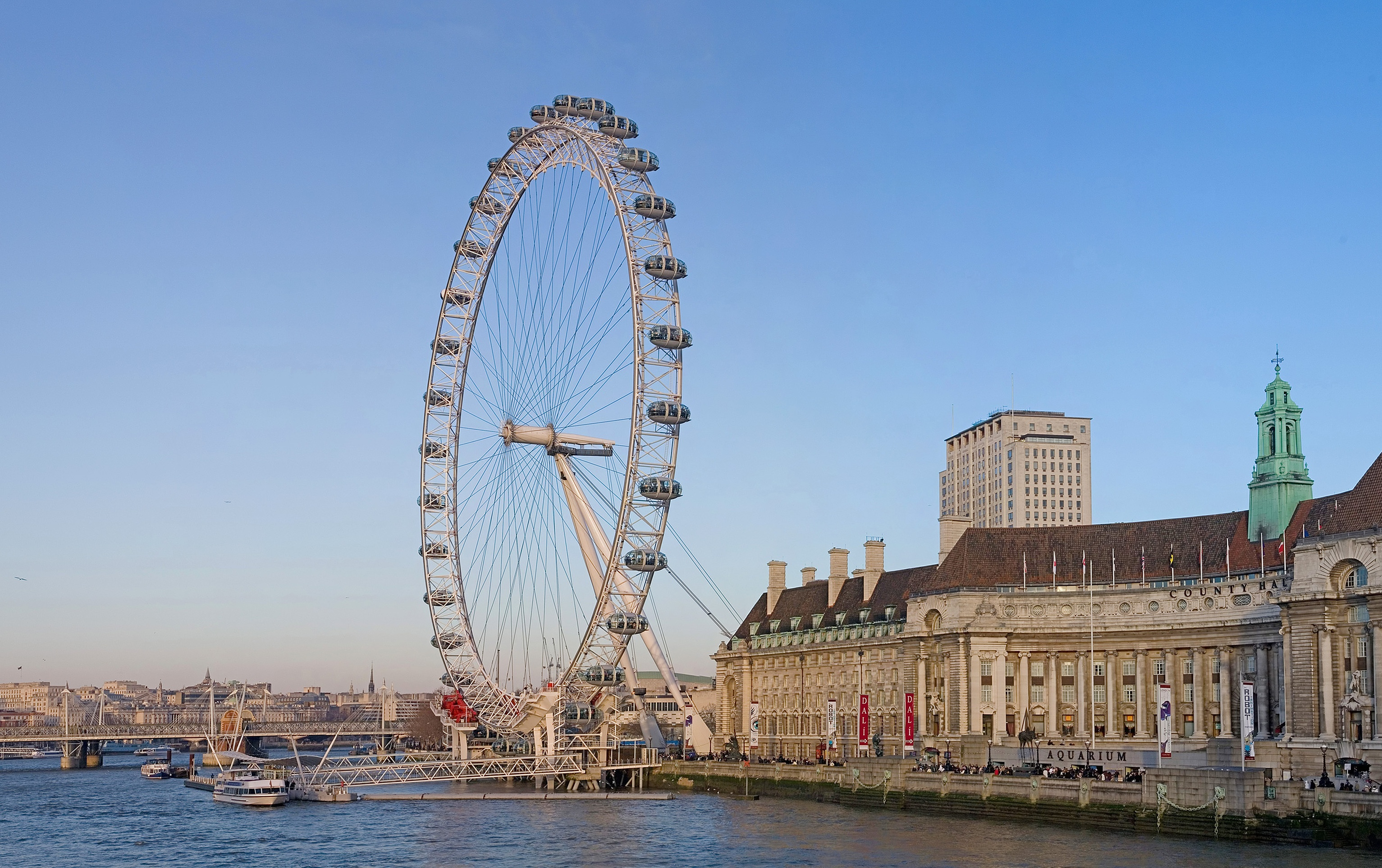 This is a panorama of 4 segments taken with a Canon 5D and 24-105mm f/4L IS lens by myself.